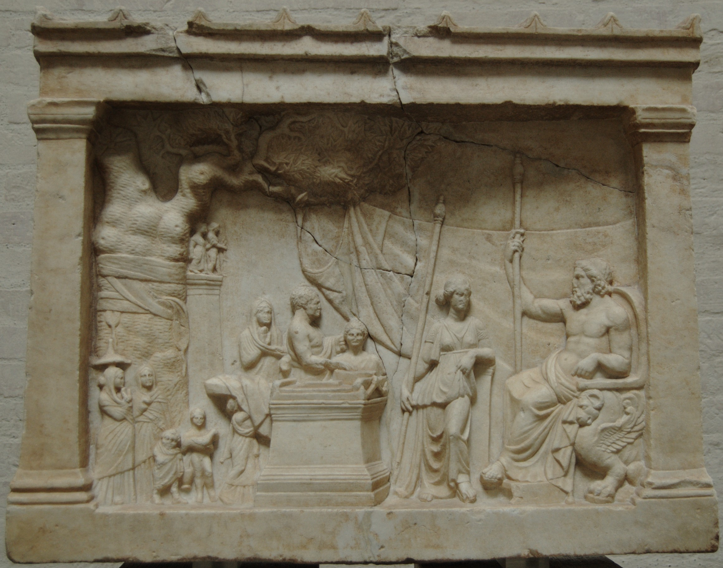 Rural votive place on a relief. God and goddess on throne, sacred platane, column with little statues of the god pairs, altar and an offering family. Ca. 200 BC.